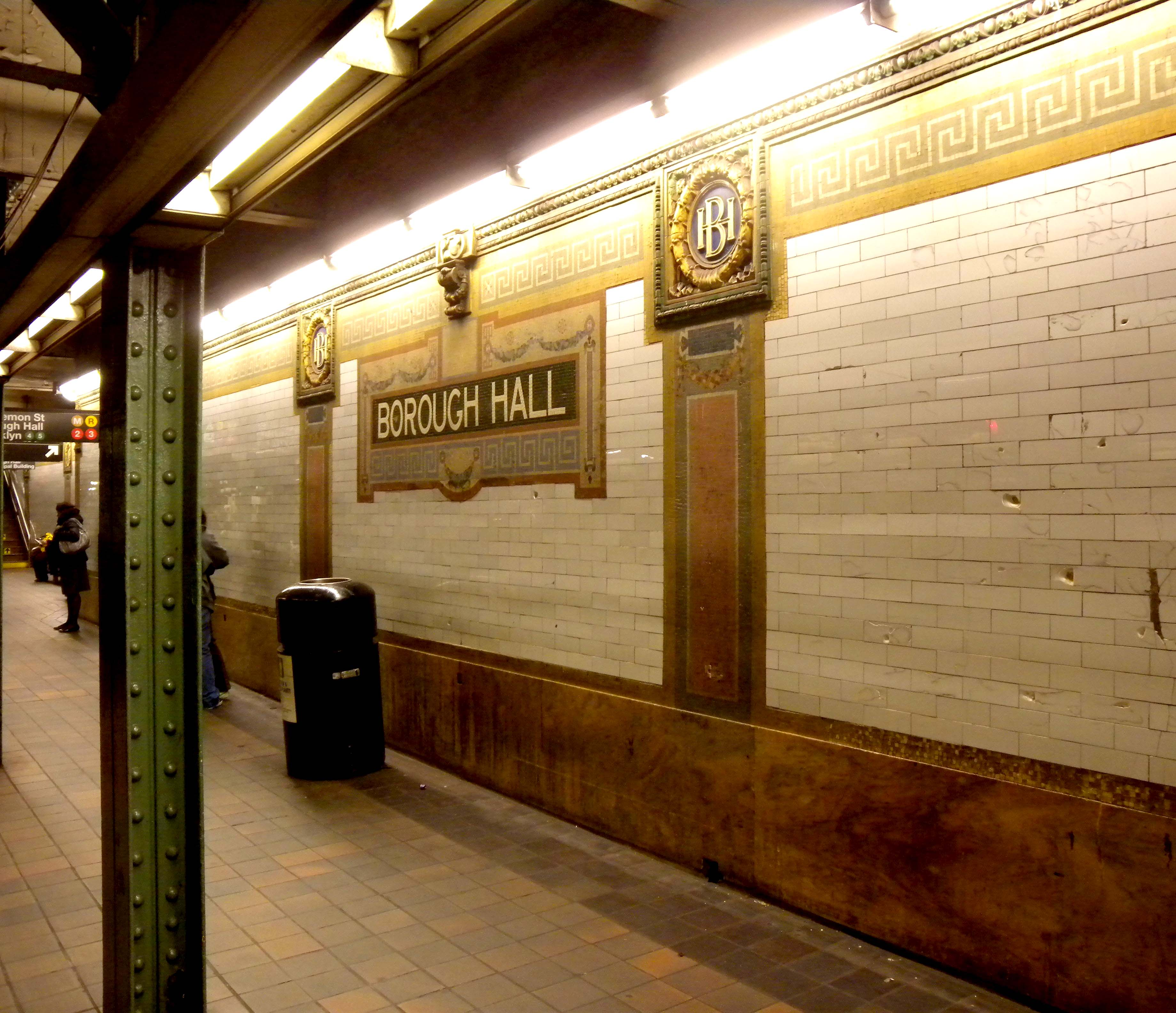 Station identification mosaic and cartouches in Lexington Avenue platform of Court Street–Borough Hall (New York City Subway).